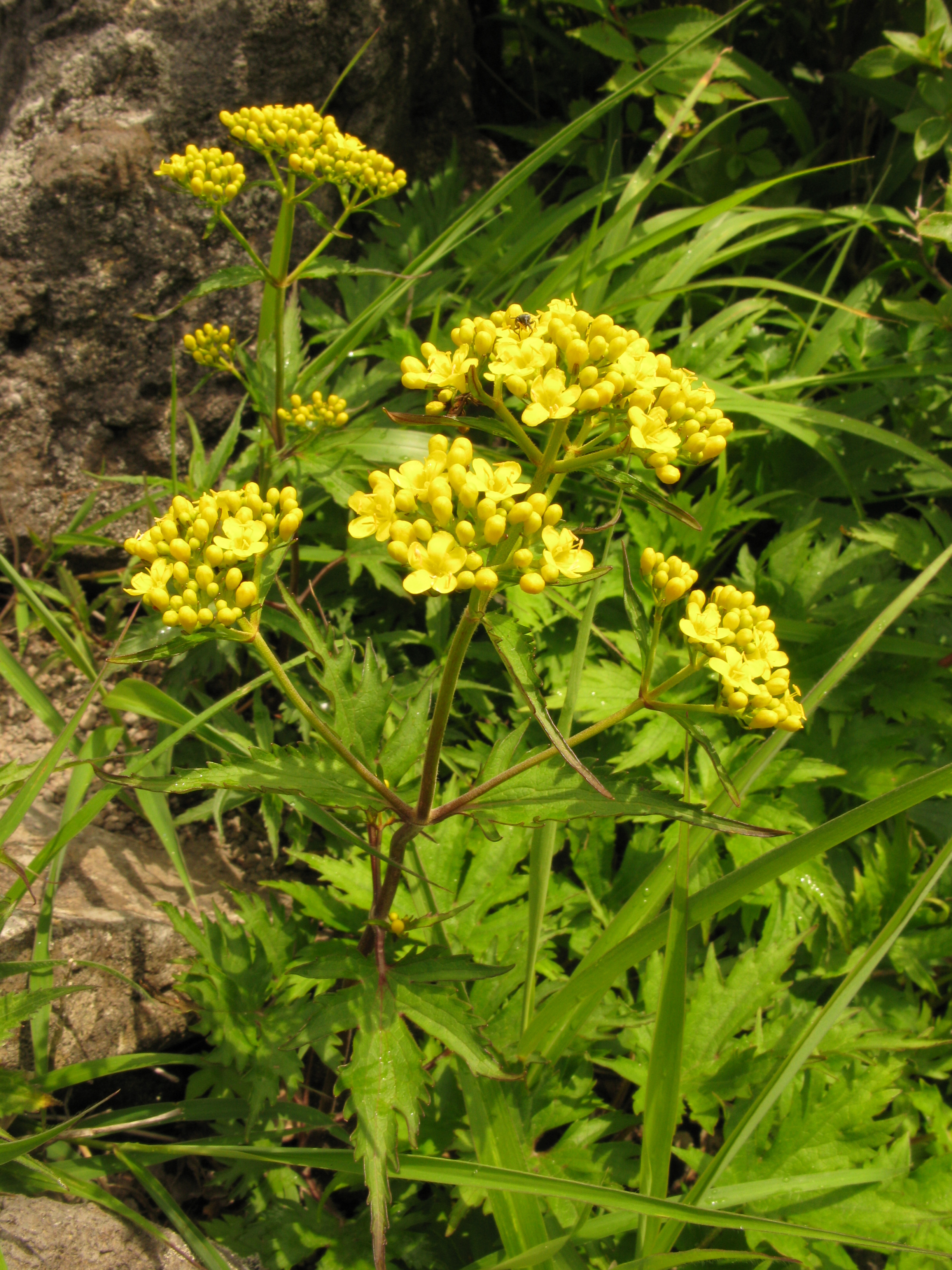 Patrinia triloba,Aizu area,Fukushima pref.,Japan